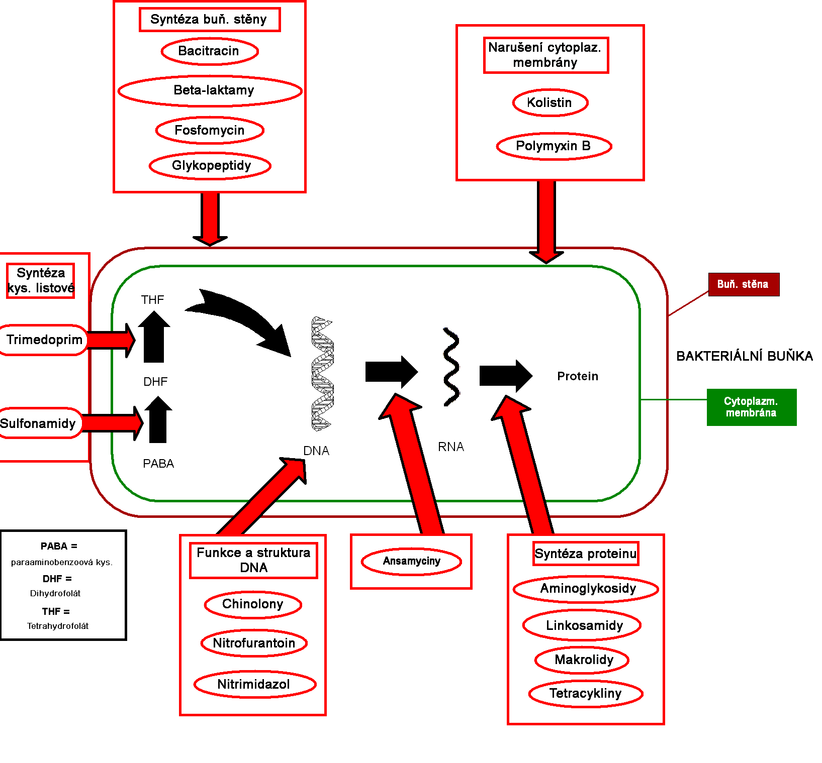 Author of original german version: Benutzer:FEERERO